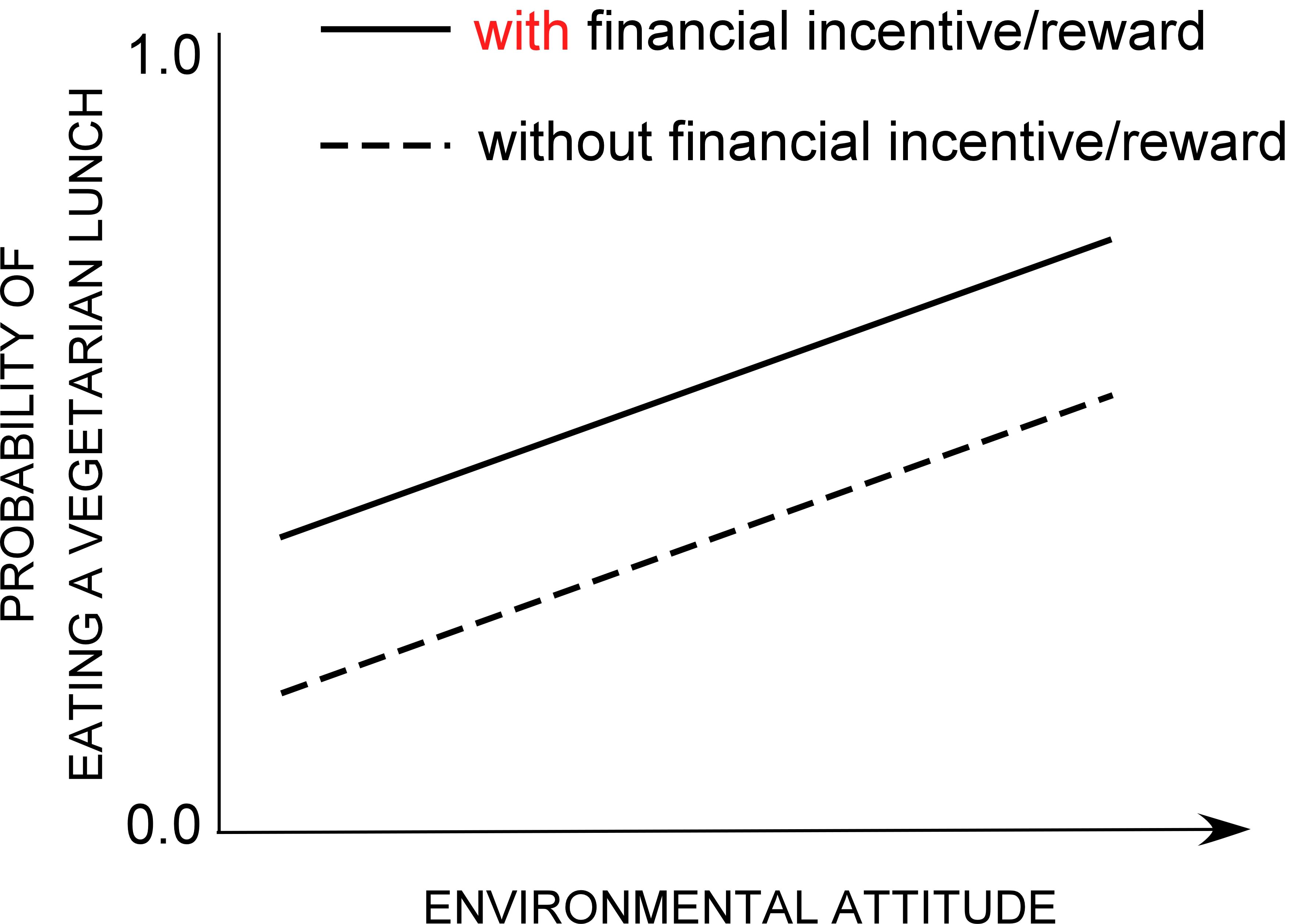 compensatory attitude-cost interaction